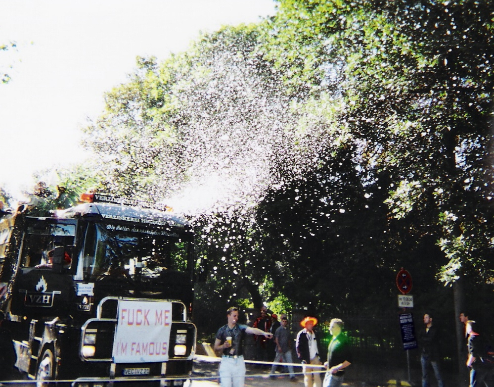 Vision Parade 2004